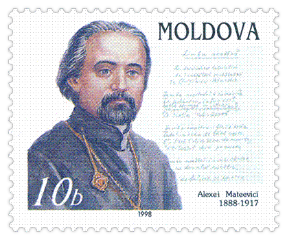 Stamp of Moldova; Description:Alexei Mateevici